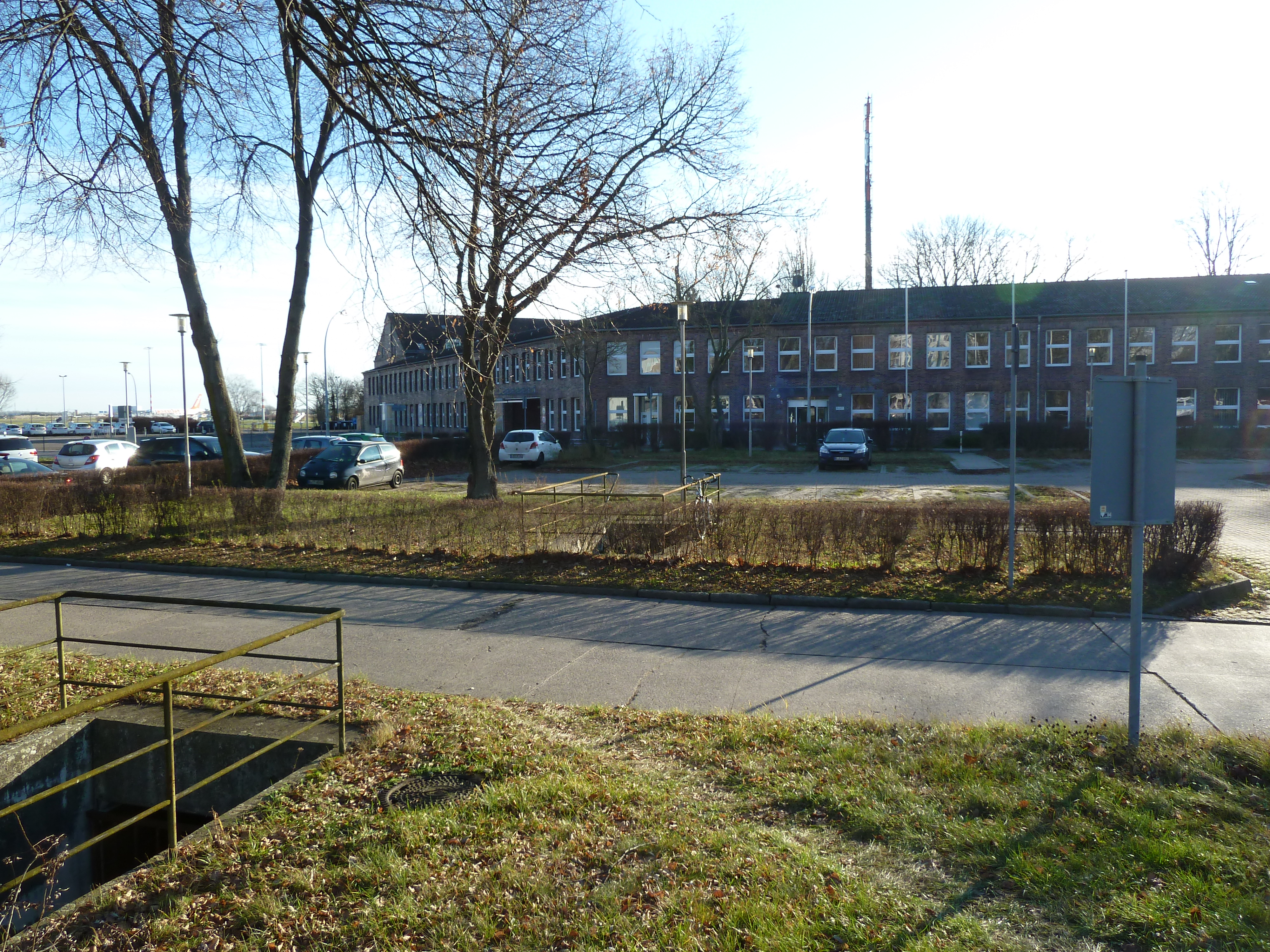 Former Mitropa Schönefeld Flughafen Hotel, located west-southwest of the main (Schönefeld)terminal and south-southwest of the S-Bahnhof Flughafen Berlin Schönefeld, now used as the FBB Konferenzzentrum (Flughafen Berlin Brandenburg Conference Center), 2017 photo.